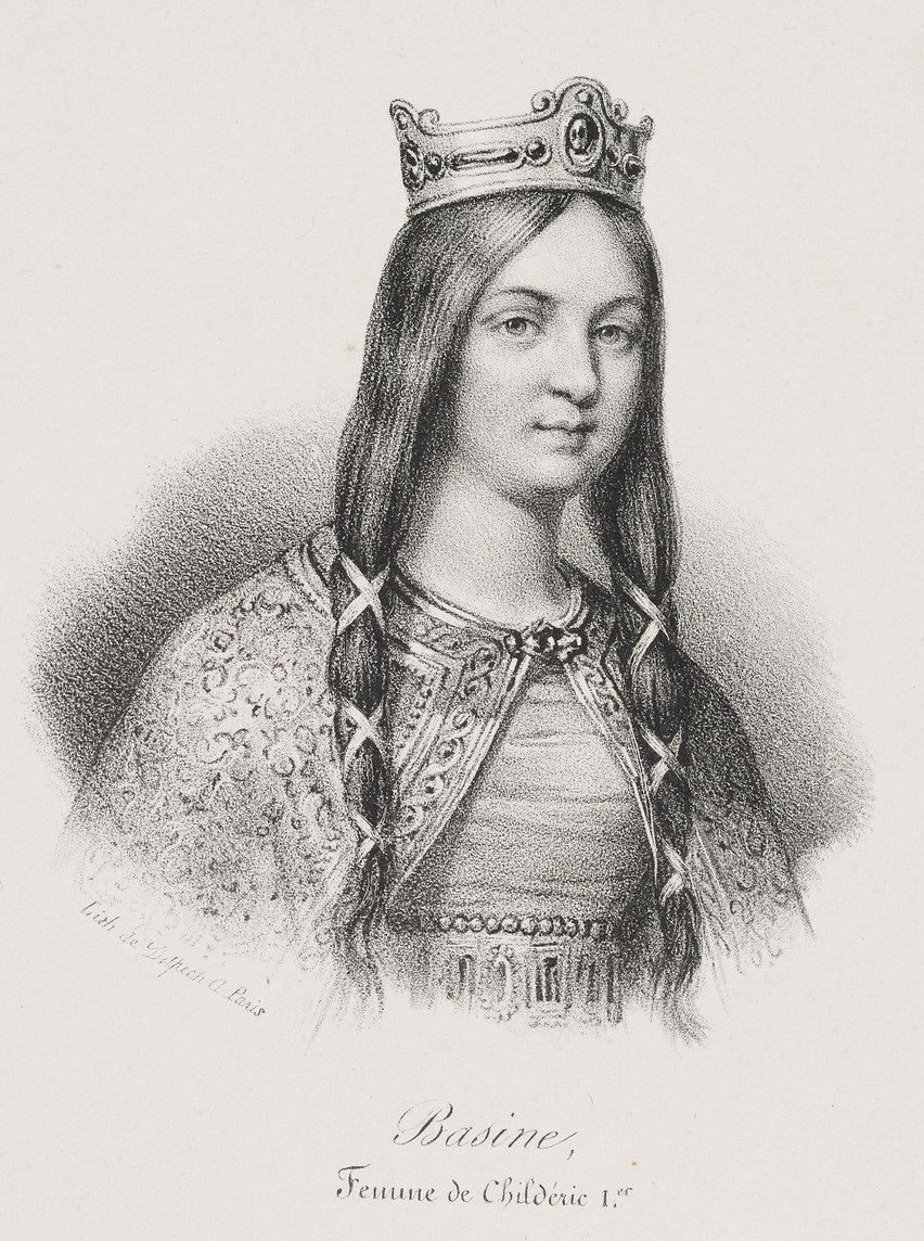 Basina of Thuringia (c.438-477), wife of Childeric I